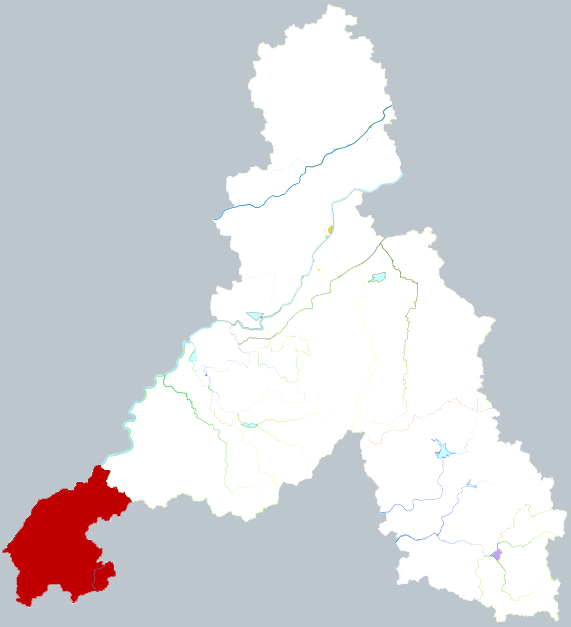 Location of Pingyin county in Jinan City, China